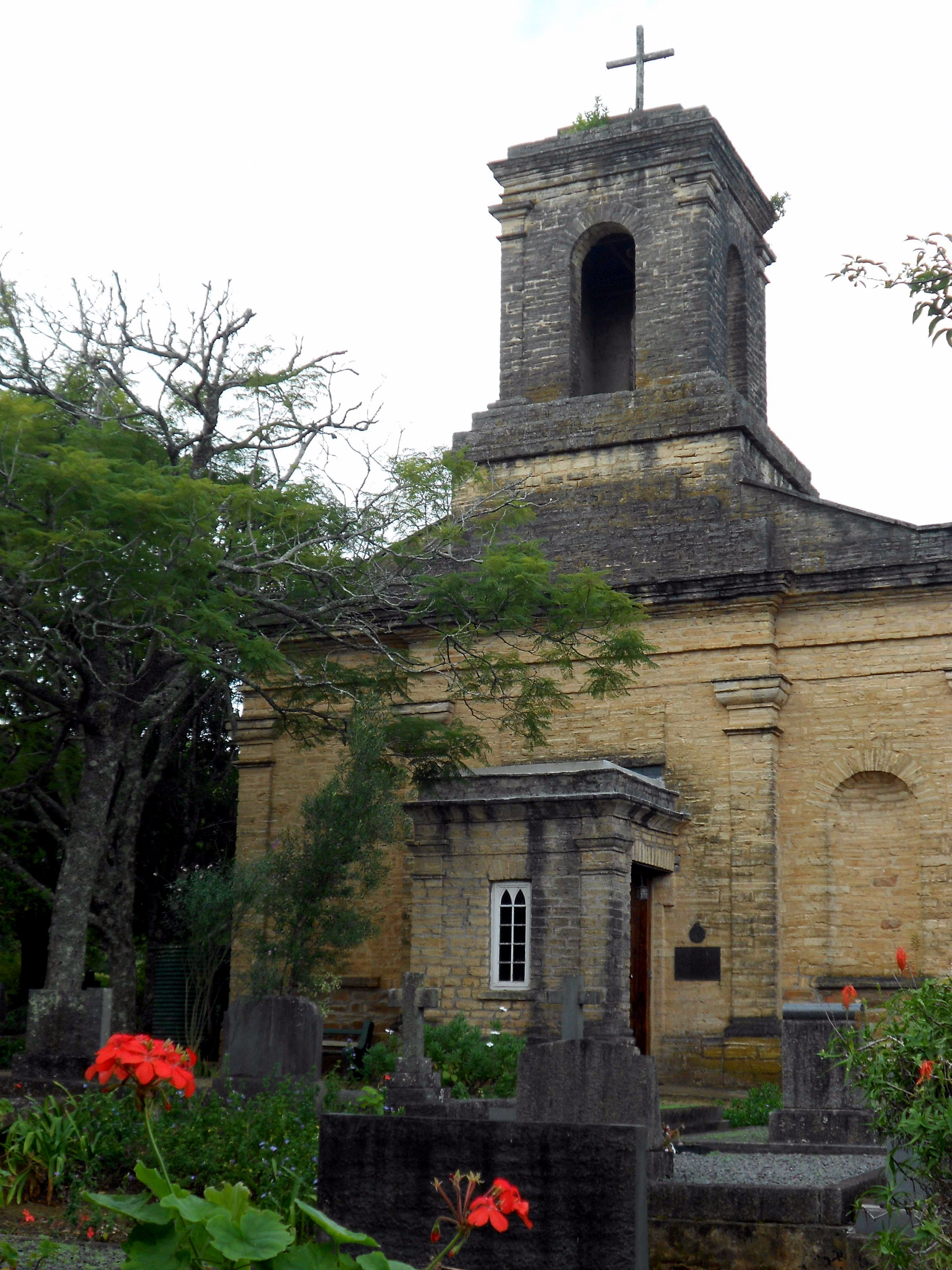 The foundation stone was laid in 1832 and the church was opened on 1 January 1838. It is the oldest unaltered Anglican Church in South Africa. During the Frontier wars it was also used as a sanctuary for hundreds of British Settlers. This media shows a South African Protected Site with SAHRA file reference 9/2/009/0023.